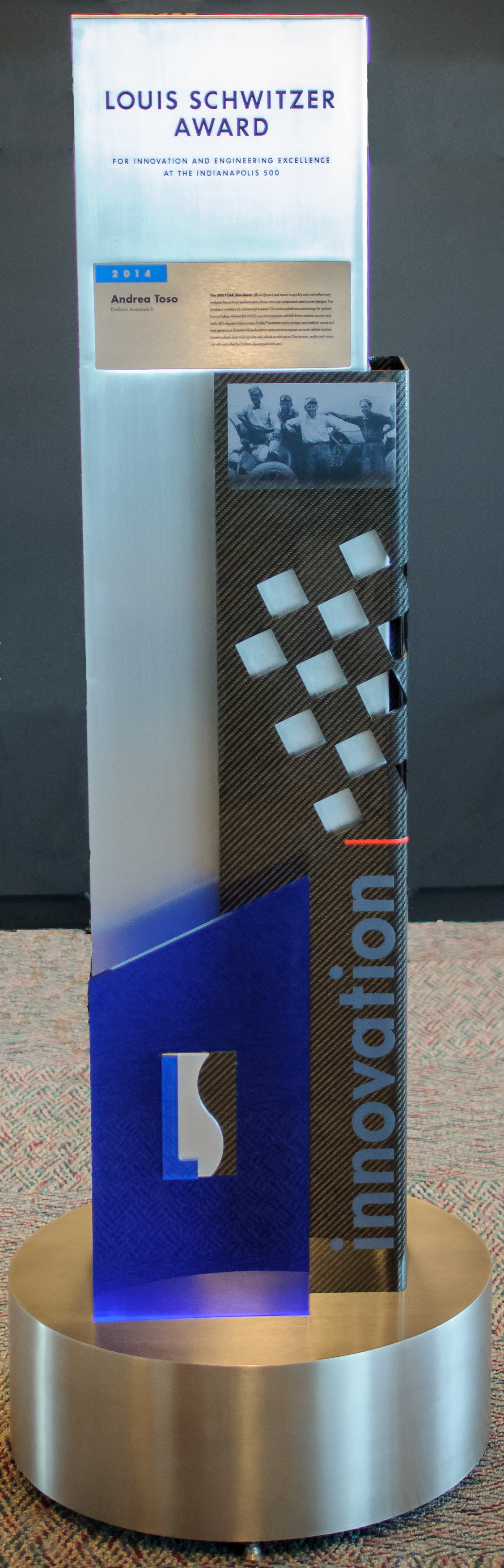 The new trophy for the Louis Schwitzer Award debuted in 2015 at the Indianapolis Motor Speedway prior to the 99th running of the Indianapolis 500.